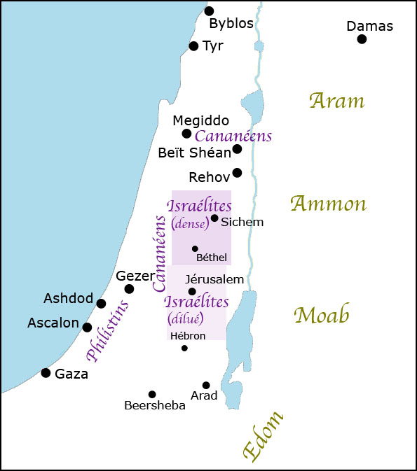 The map shows the settlement of the Israelites at the beginning of the 10th century BC (dense inhabitation along the north of the hill-chain, diluted inhabitation in the south). The Canaanites lived in the big cities of the valleys. The Philistines lived in the coastal area. Drawn mainly using Mario Liverani, "Israel's History and the History of Israel", pp.88-96